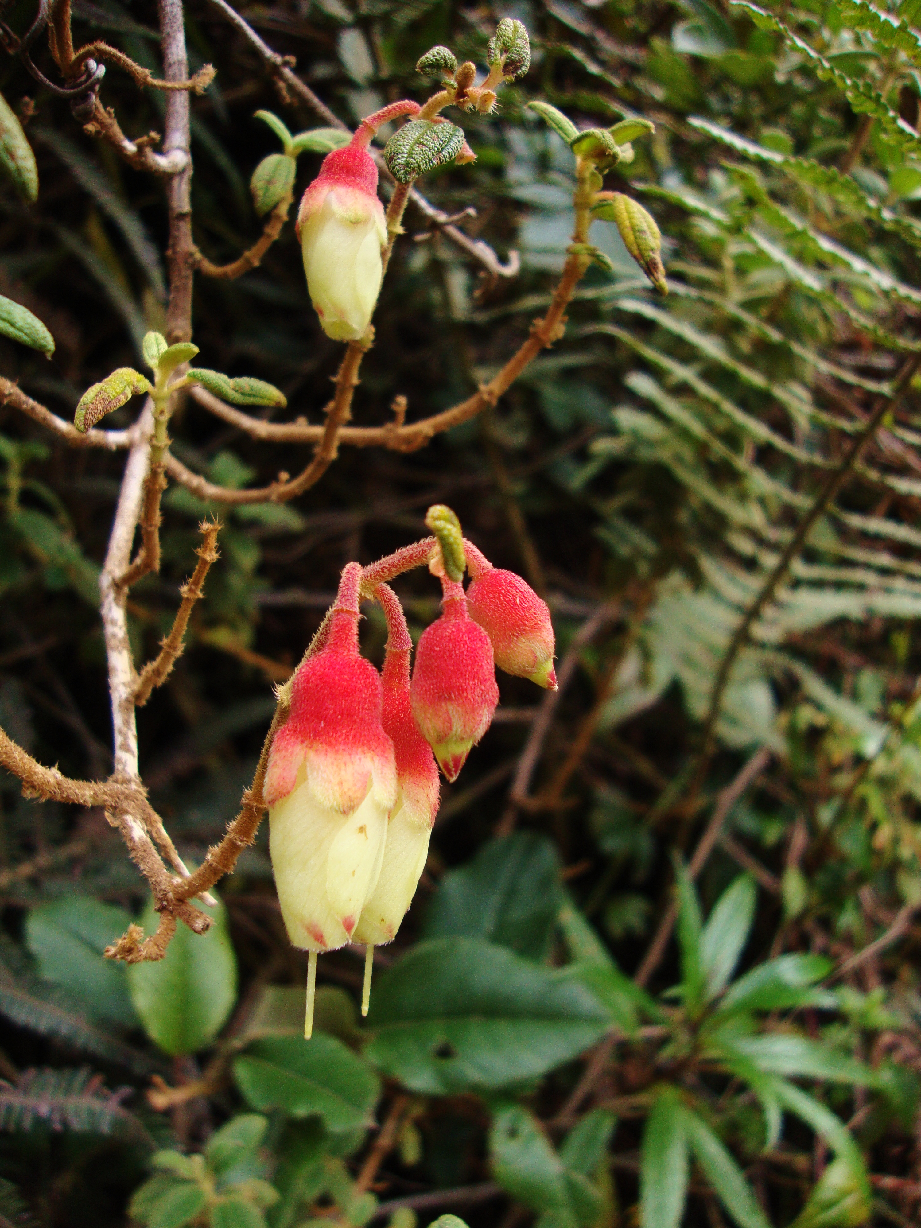 Pucachaglla near papallacta in ecuador. Near national park Coca Cayambe